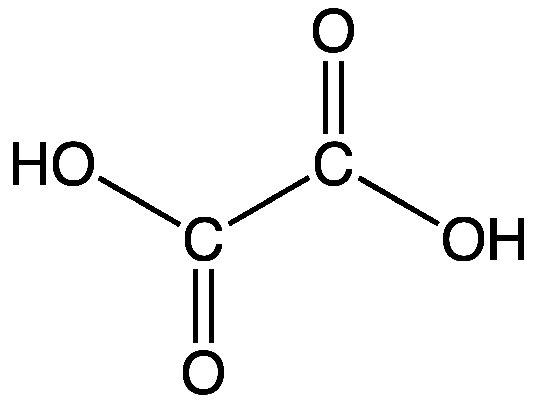 redrawn oxalic acid molecule